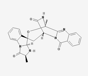 Fumiquinazoline C